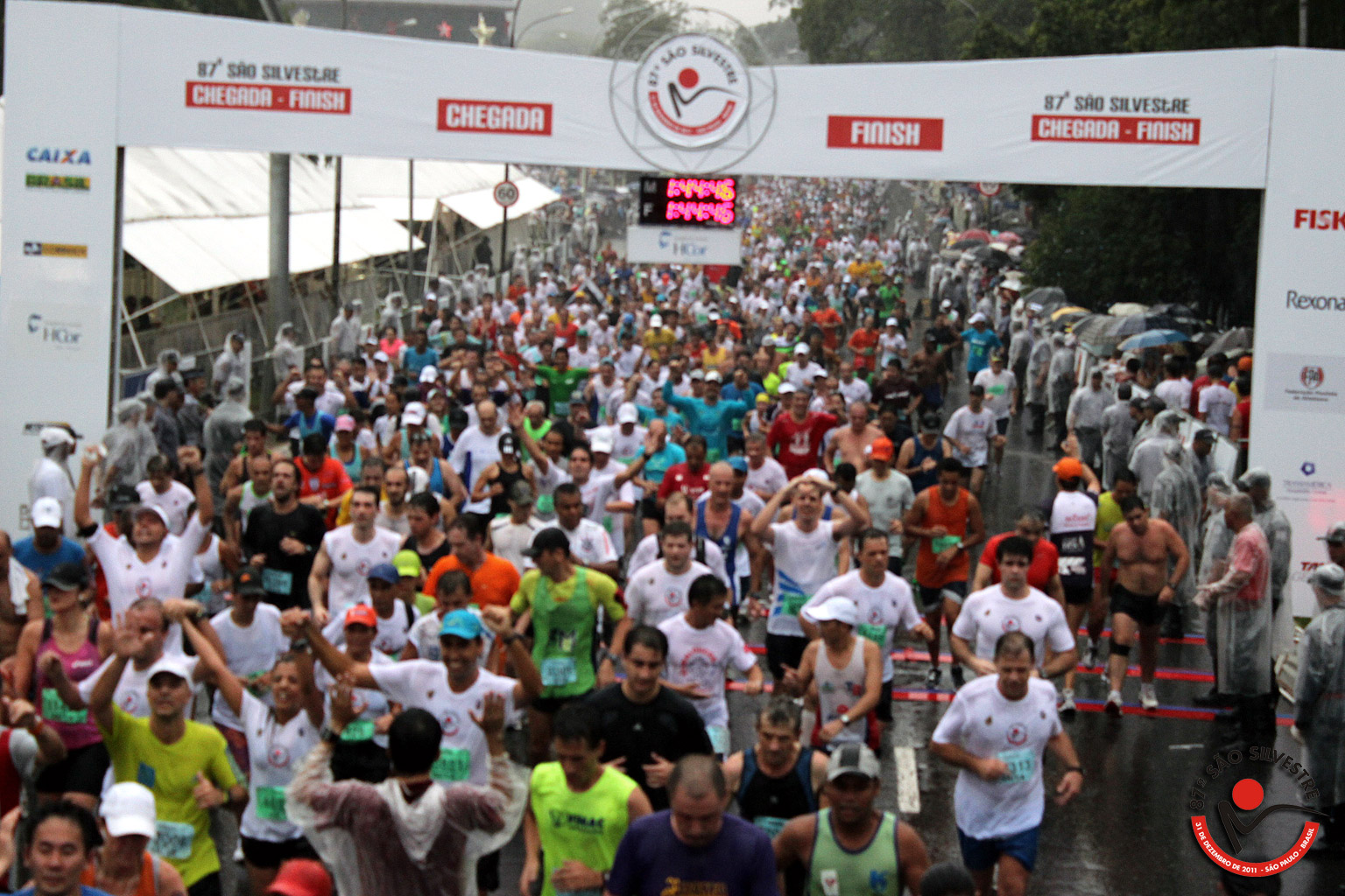 New Year's Eve 2011 in São Paulo. The Corrida São Silvestre is a 15km road race through central São Paulo. The clock shows the time from the start of the race, but with so many runners it takes a long time to get to the start line... my actual finish time was 1.28. I am on the right side wearing a brown cap - the Surrey cricket club cap!